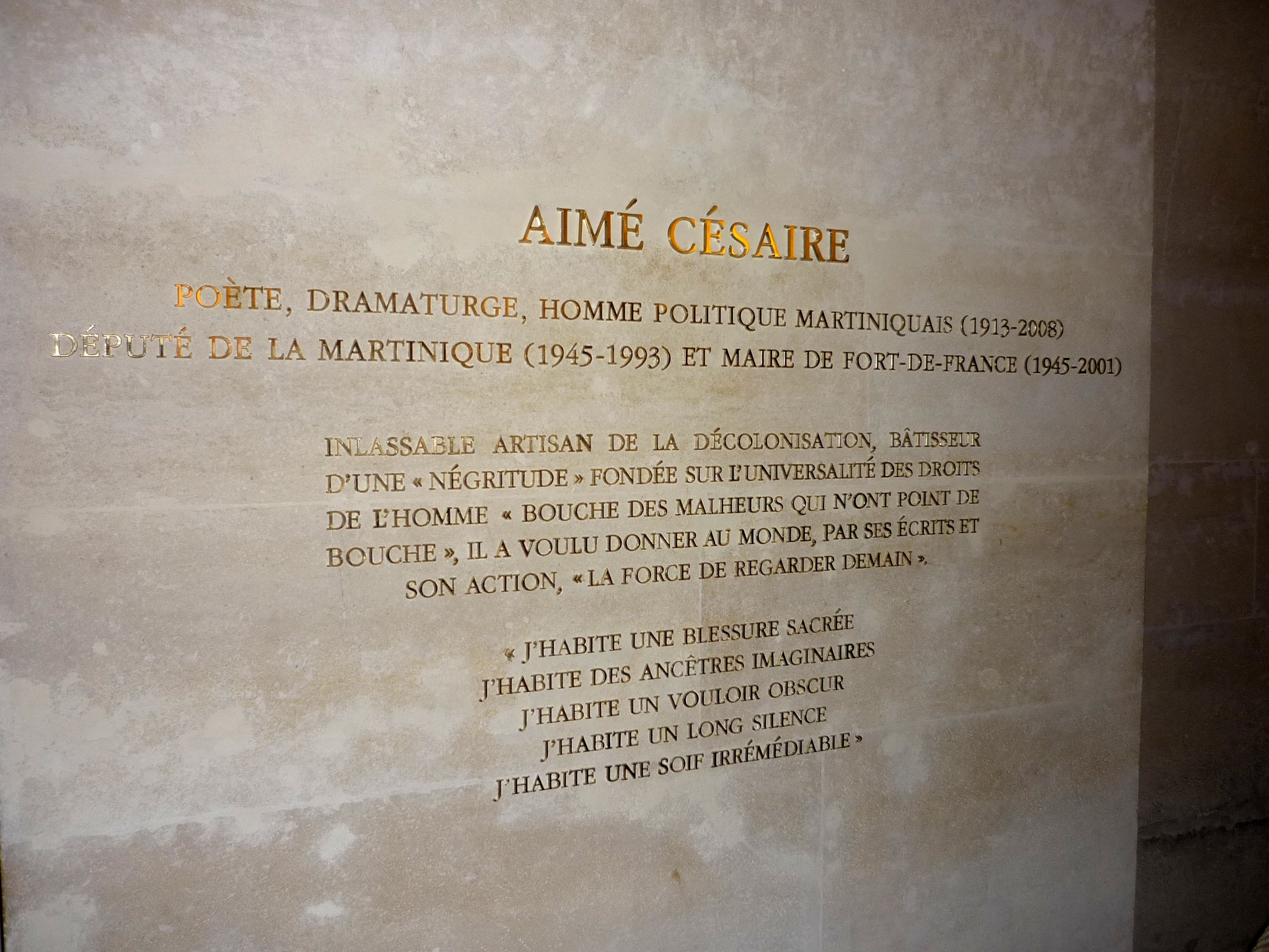 Aimé Césaire's inscription, Panthéon, Paris, France